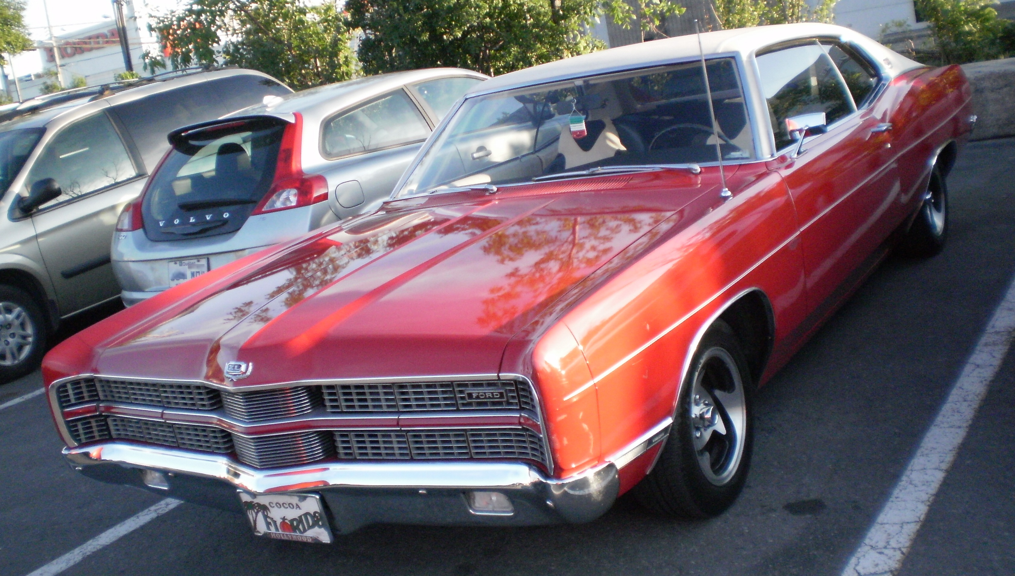 1969 Ford XL SportsRoof photographed in Montreal, Quebec, Canada at the Gibeau Orange Julep.